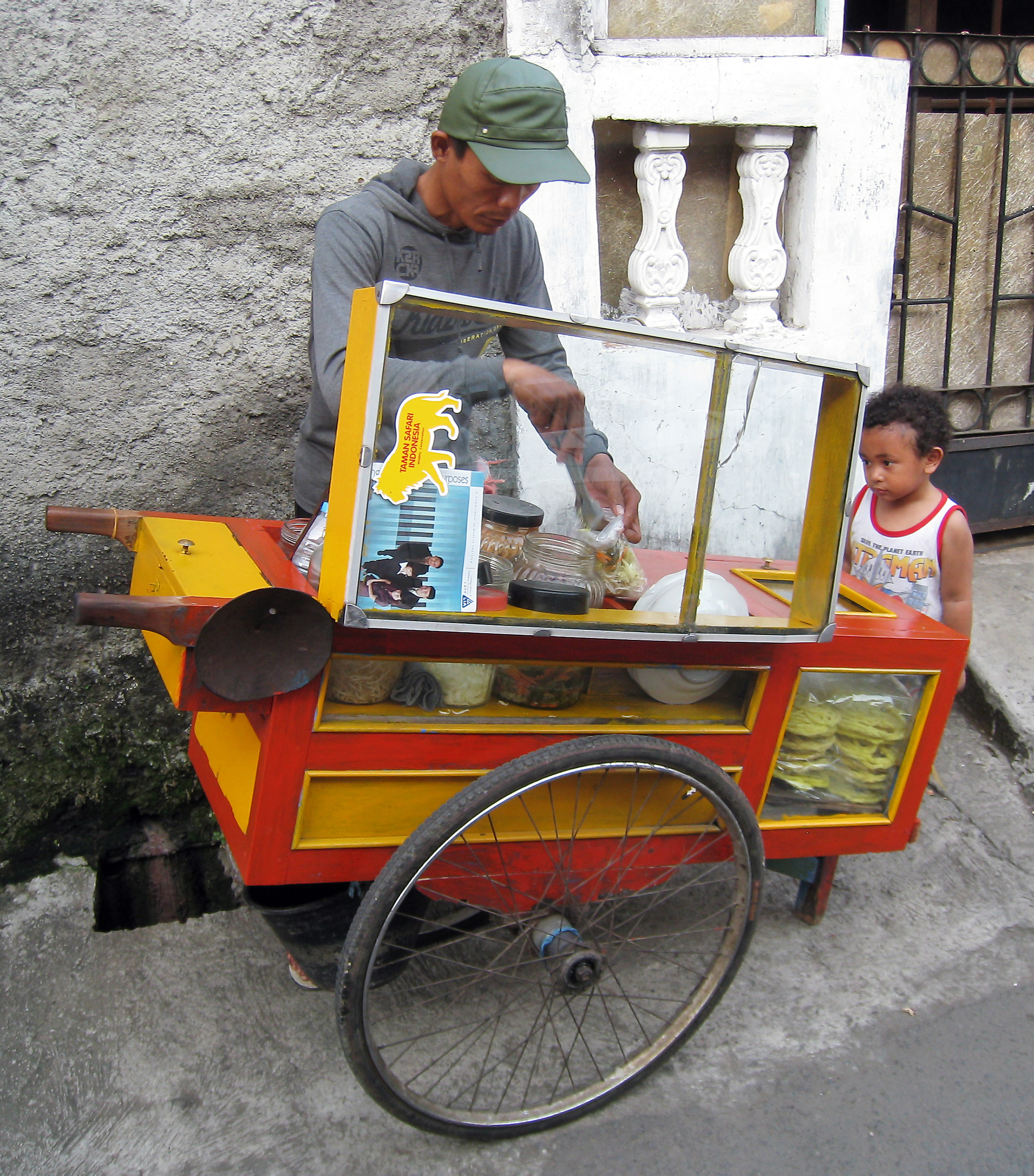 Asinan peddlar frequented residential area in Rawasari Timur, Central Jakarta, Indonesia, selling asinan, preserved vegetable dish commonly found in Jakarta, Betawi cuisine, Indonesia.